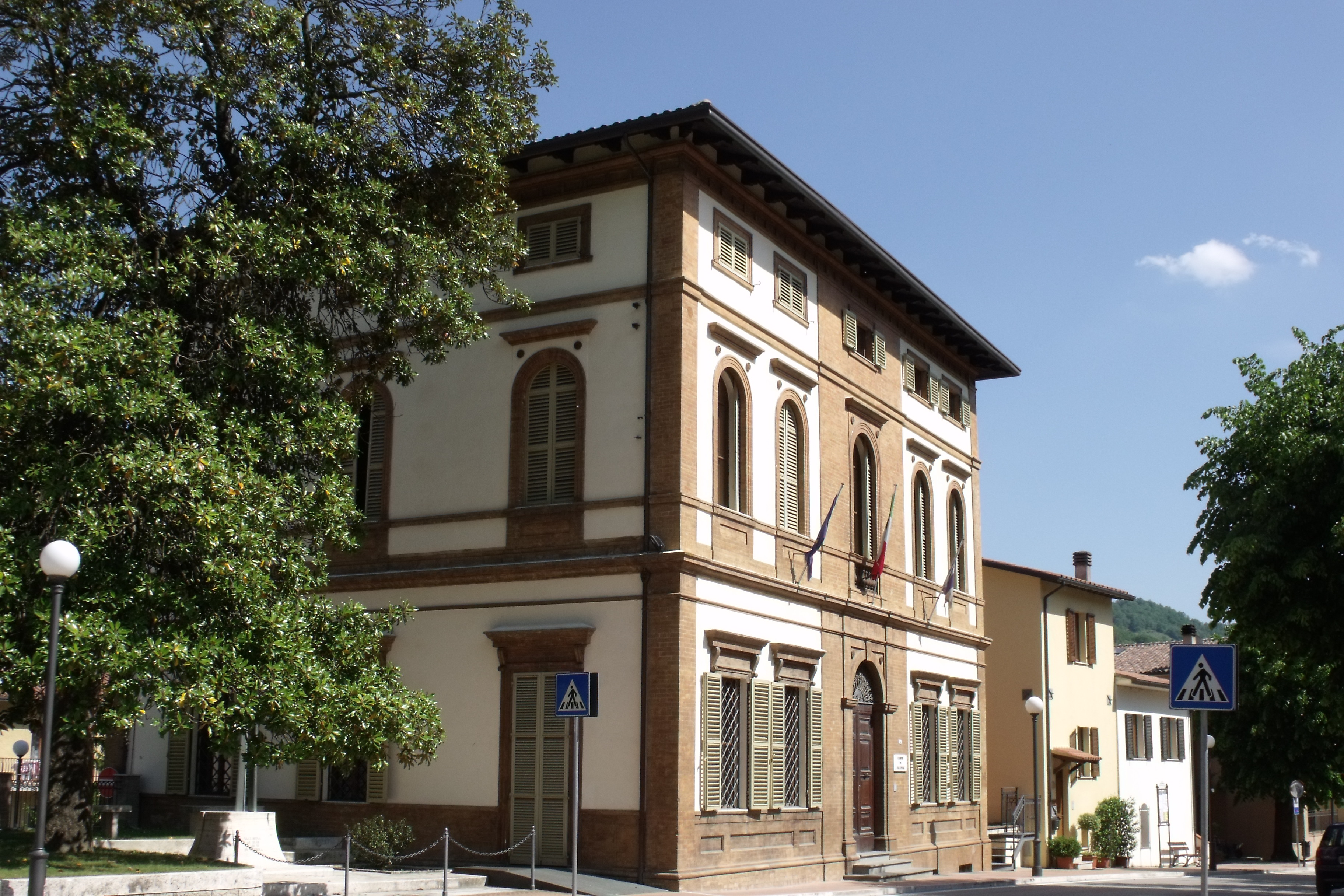 Town hall of Valtopina, Province of Perugia, Umbria, Italy